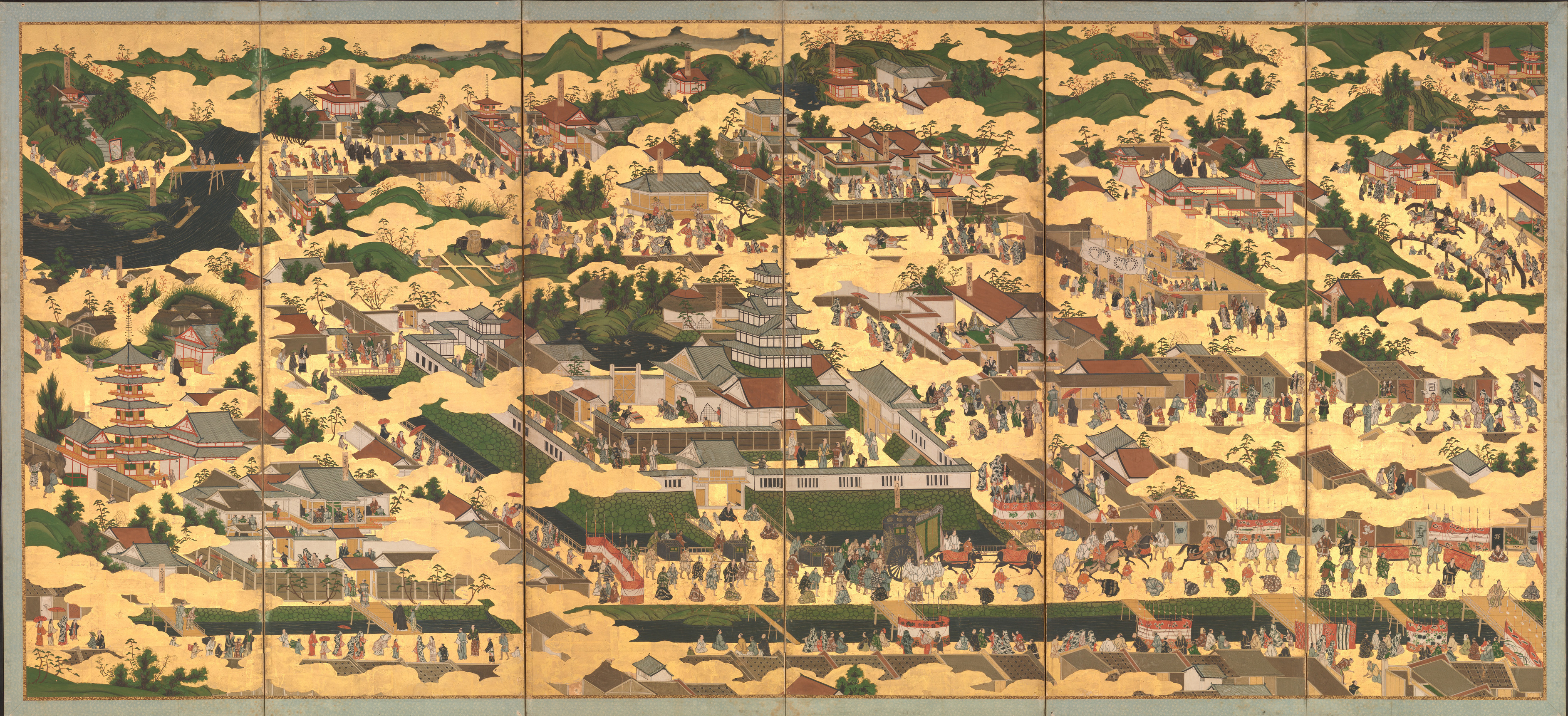 Japan; Screens; Screens